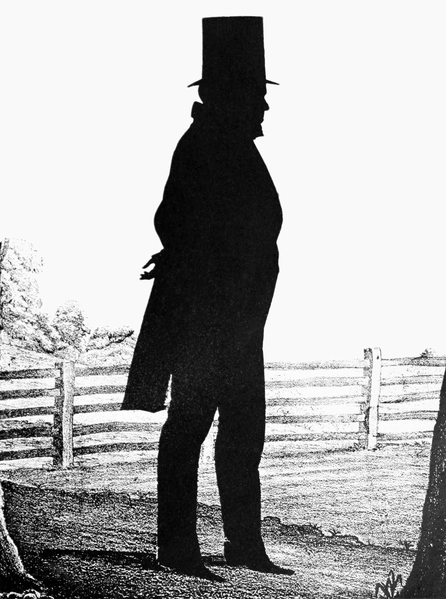 Angus William McDonald (February 14, 1799 – December 1, 1864) was a 19th century American military officer and lawyer in the U.S. state of Virginia. He also served as a colonel in command of the Confederate States Army's 7th Virginia Cavalry during the American Civil War. McDonald was appointed to serve in a number of prominent political positions including a superintendent overseeing the construction of the Northwestern Turnpike and a commissioner representing Virginia in its boundary dispute with Maryland. McDonald was the grandson of Virginia military officer and frontiersman, Angus McDonald (1727–1778) and the father of United States Fish Commissioner Marshall McDonald (1835–1895).